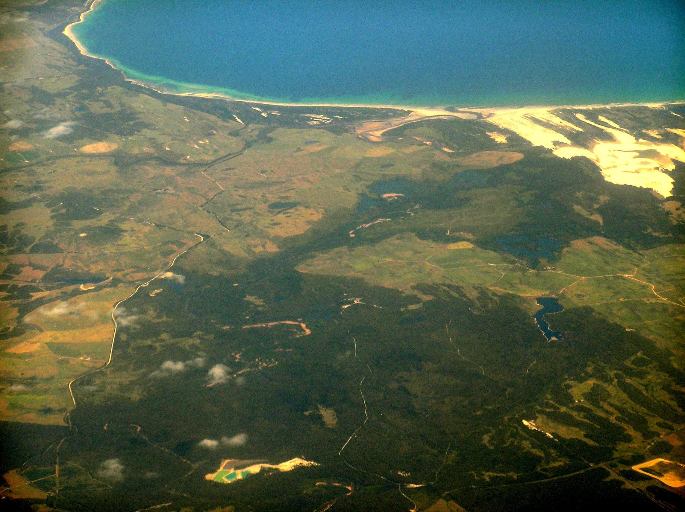 Boobyalla left of the sand dunes on Ringarooma Bay